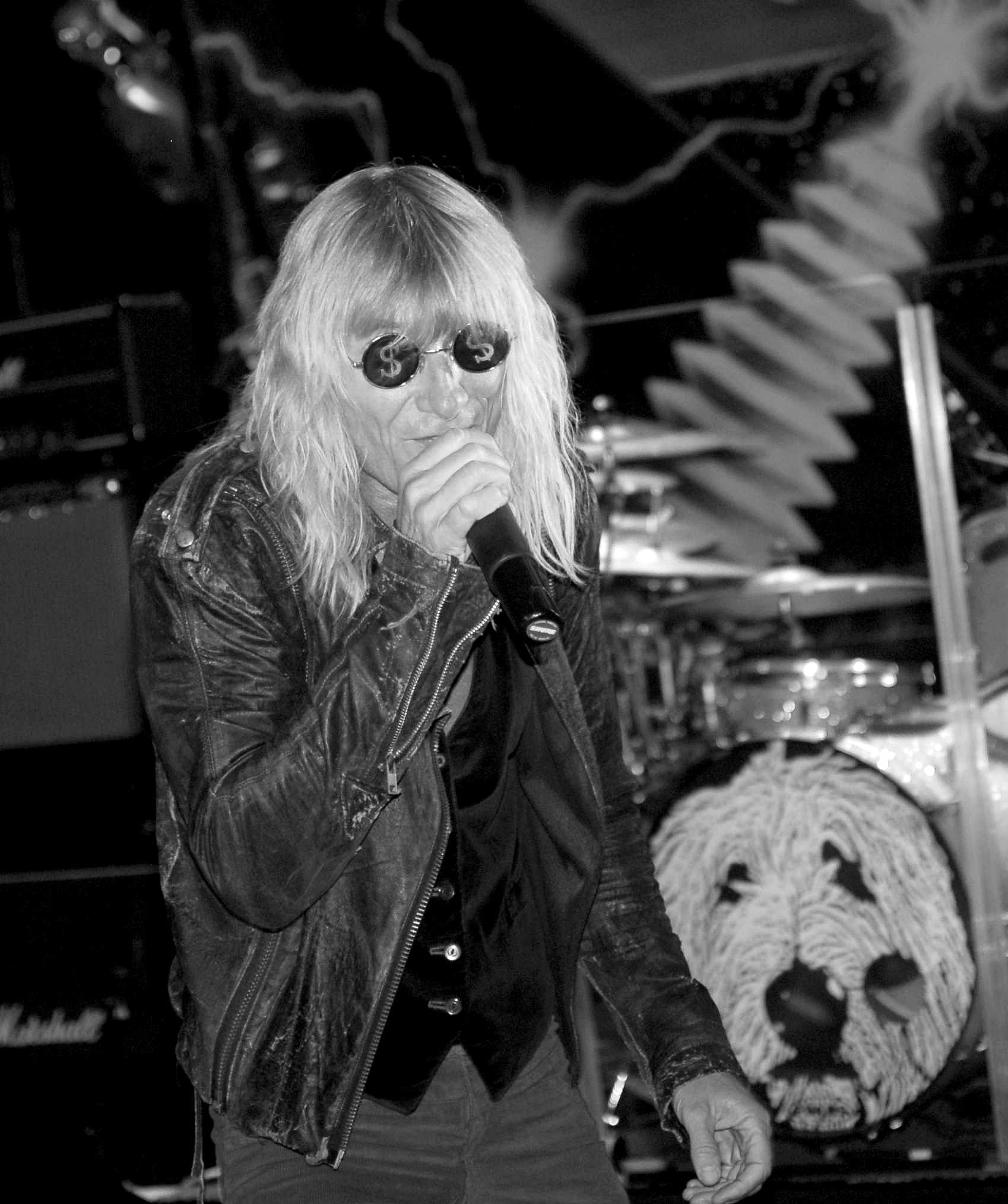 American singer Steve Whiteman wearing his telltale $$ glasses while performing for Funny Money (band).